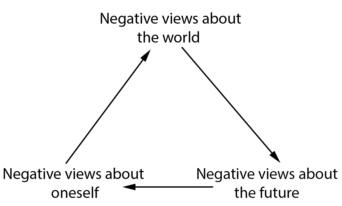 A diagram of the cognitive (or negative) triad, proposed by Beck